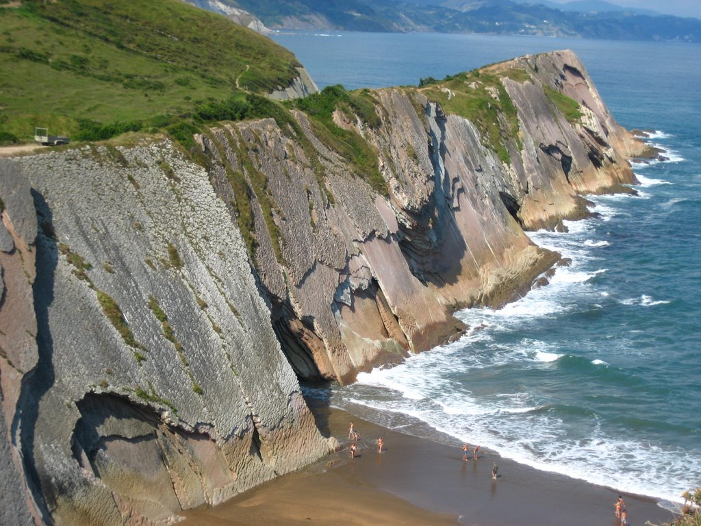 Zumaia, in Gipuzkoa, Basque Country